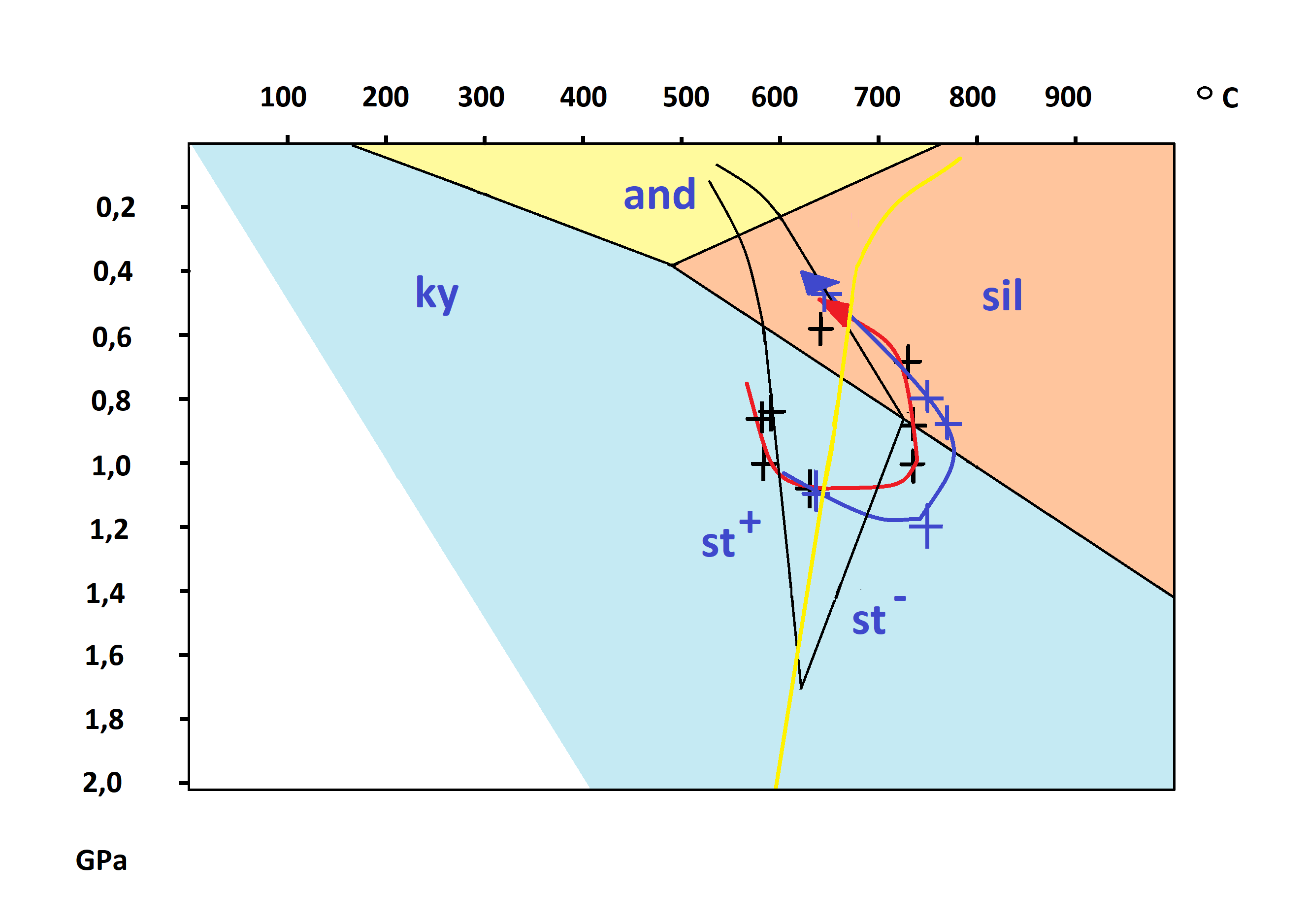 Pressure-temperature diagram of the Upper Gneiss Unit in the Sioule, French Massif Central. The path for two samples is indicated. Redrawn after Bernhard Schulz (2009).